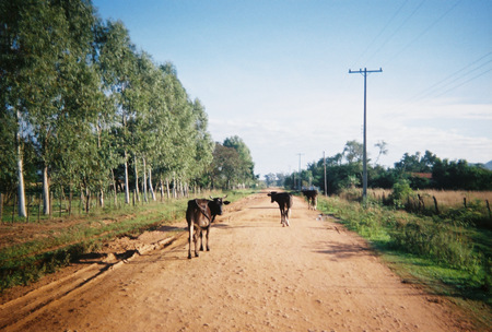 Cows wander down a dirt road. Location unknown.